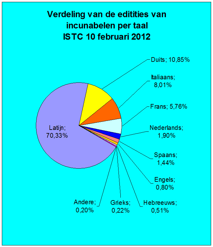 Het aantal edities van incunabelen per taal;gegevens van het ISTC British Library 10/02/2012